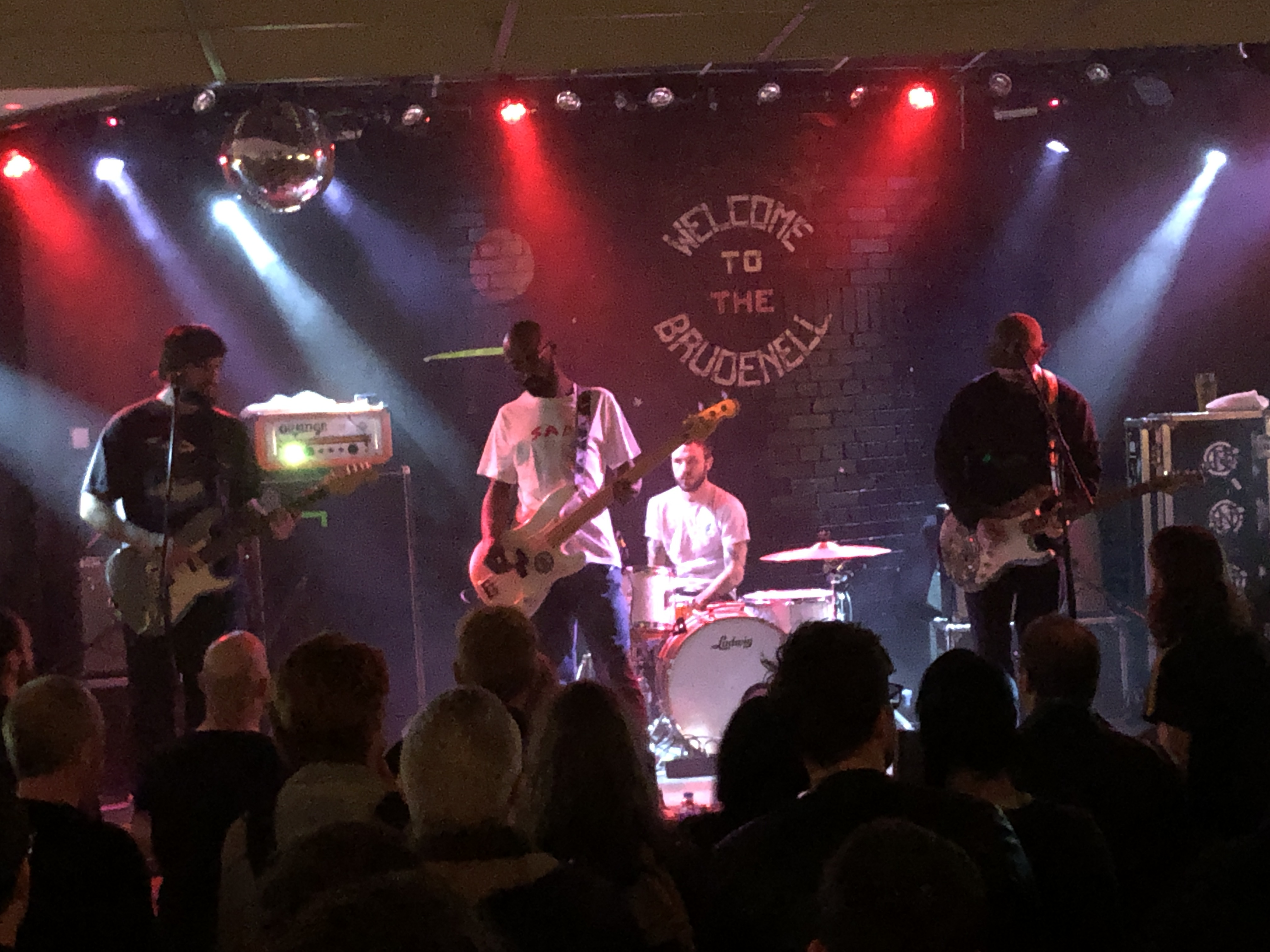 Nothing performing live at Brudenell Social Club, Leeds, UK